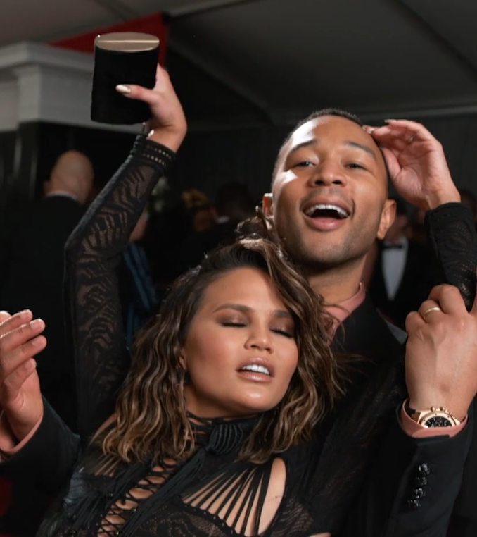 John Legend & Chrissy Teigen at 2017 Grammy Awards Red Carpet